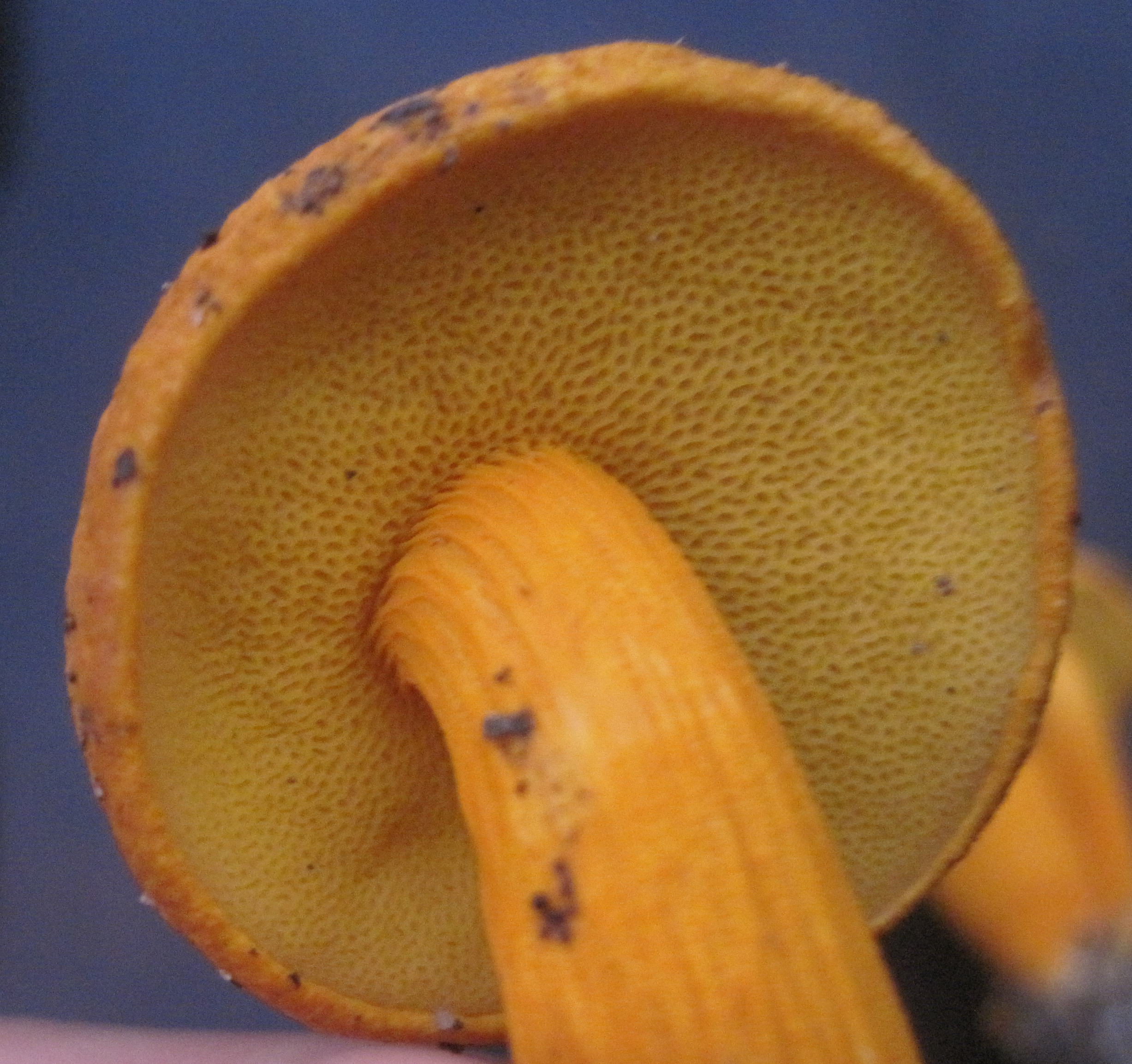 The pore surface of the bolete mushroom Boletus auriflammeus Berk. & M.A.Curtis. Specimen found in Brook Park, Ohio, USA.